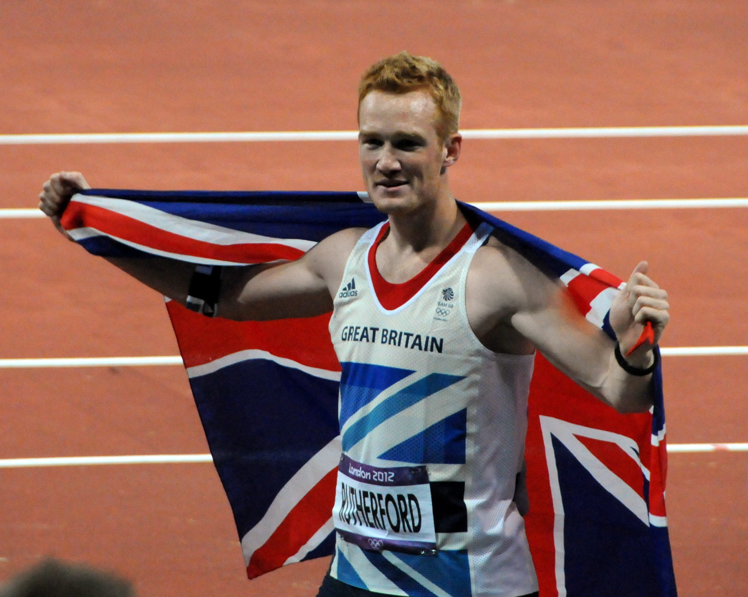 Greg Rutherford after winning the long jump at the 2012 Olympics in London